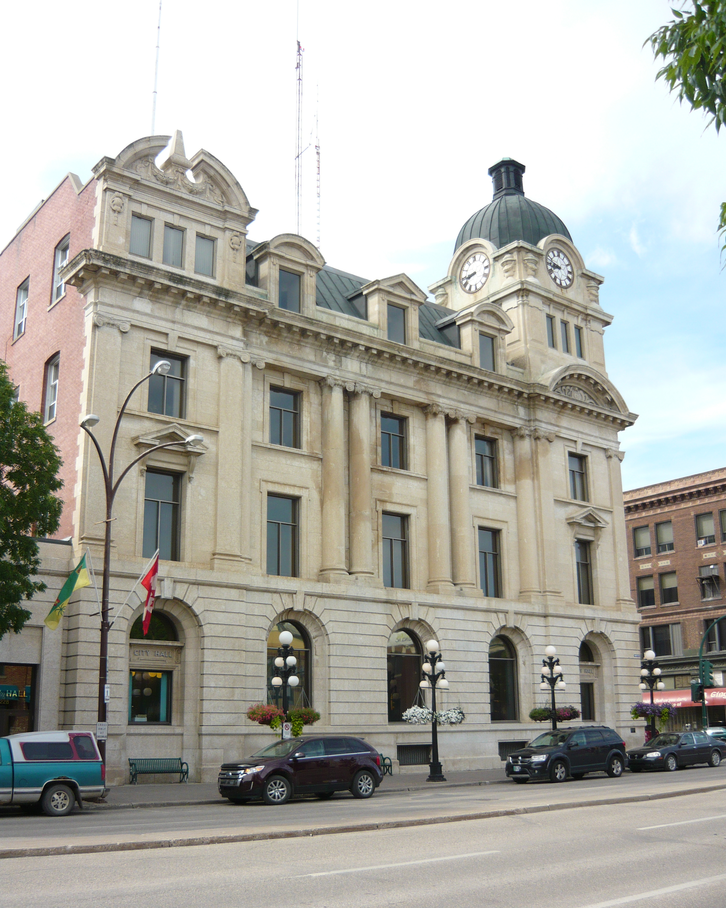 City Hall (former Post Office), 228 Main Street North at Fairford Street West, Moose Jaw, Saskatchewan, Canada. Built 1911-1914. Architect: David Ewart. Provincial Heritage Property.